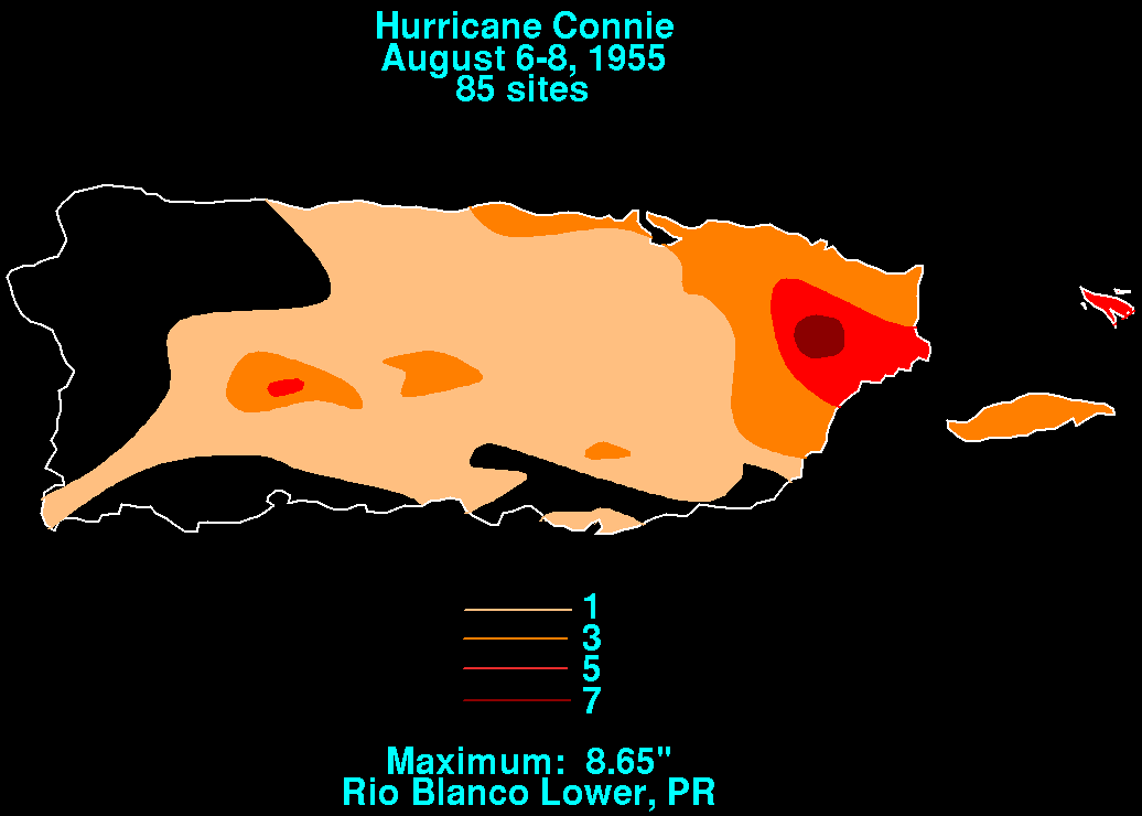 Storm total rainfall map of Hurricane Connie during August 1955.